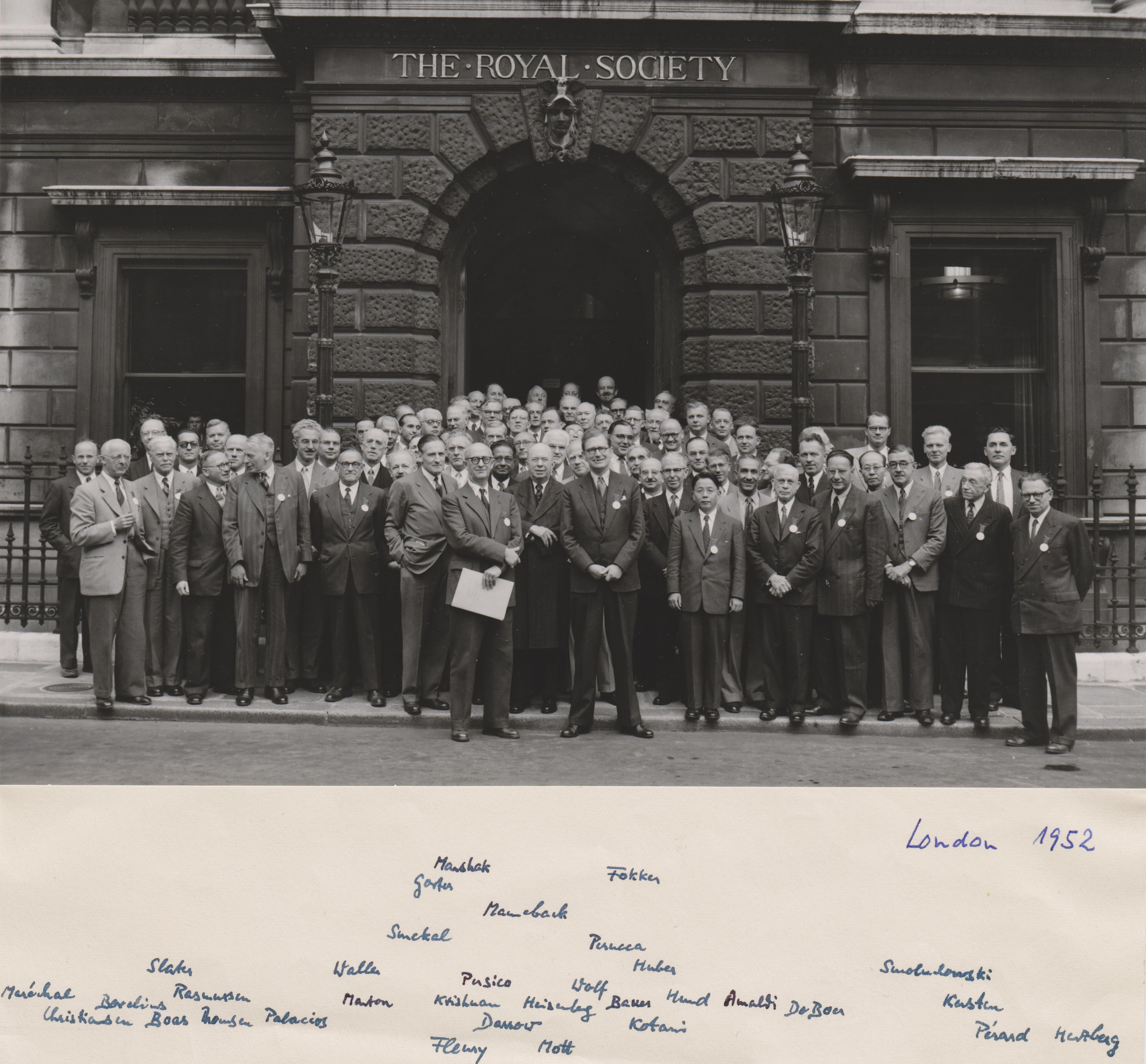 Physicists in front of the building of The Royal Society, 1952 at London, with original annotations by Friedrich Hund.